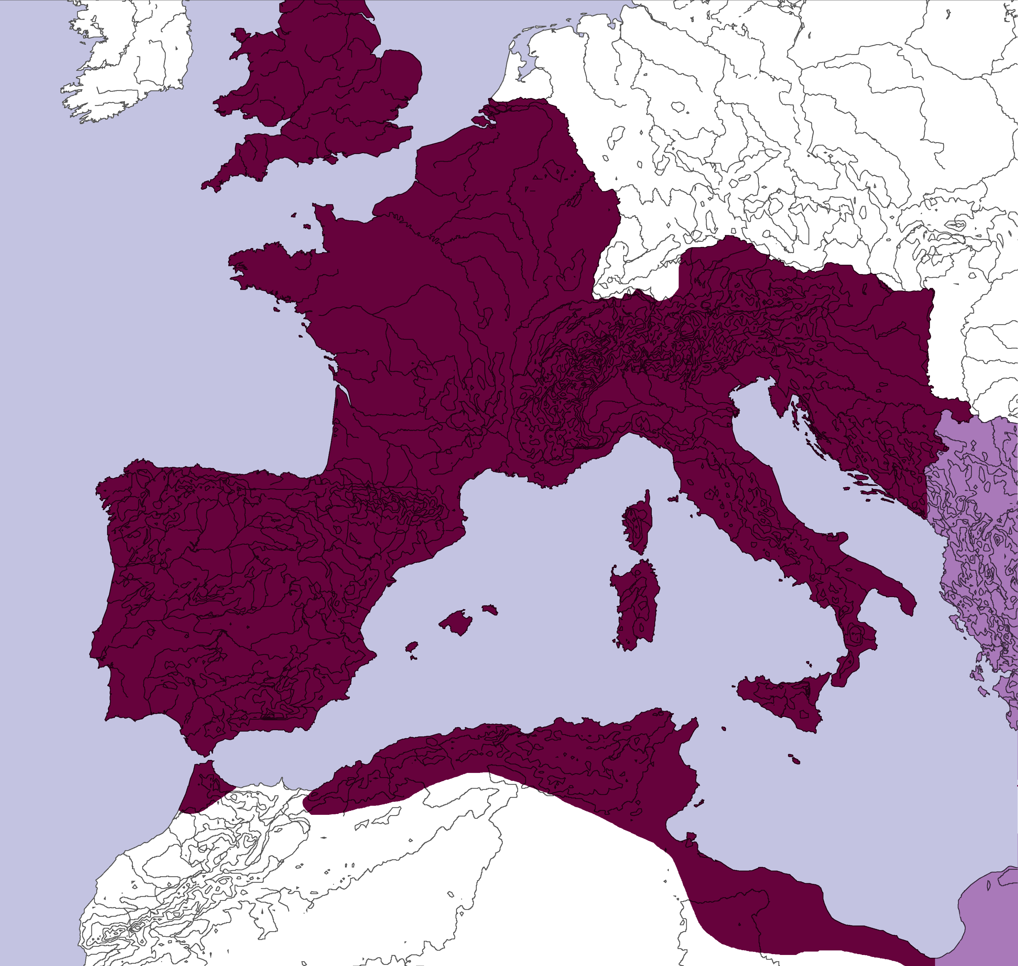 purple imesopatamia and light purple is rome